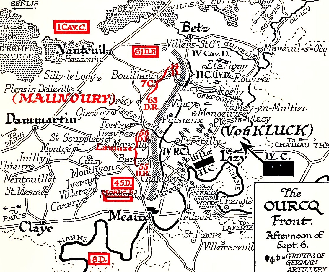 Map: Battle of the Marne, Ourcq front 6 September 1914